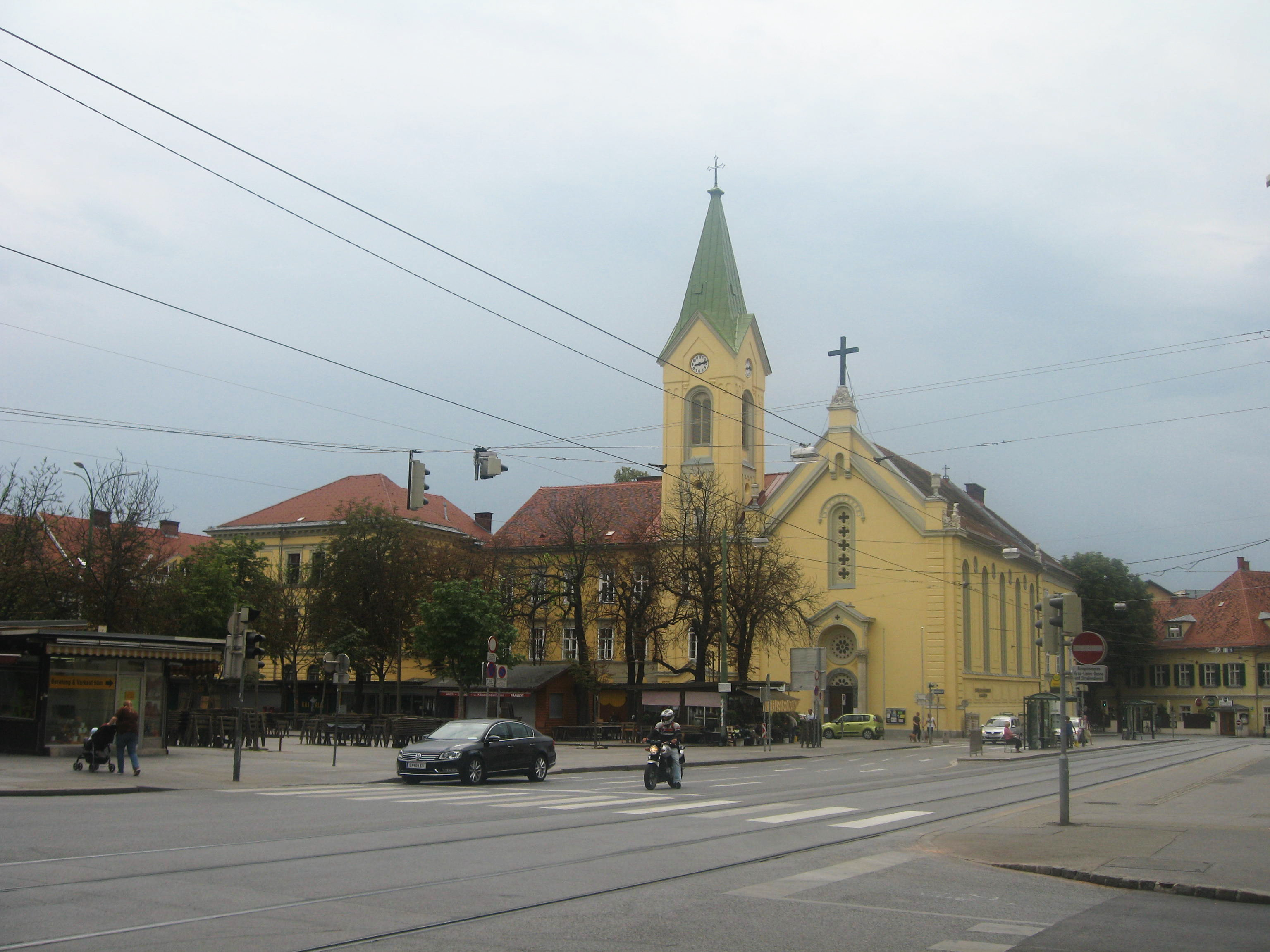 Heilandskirche in Graz. Austria